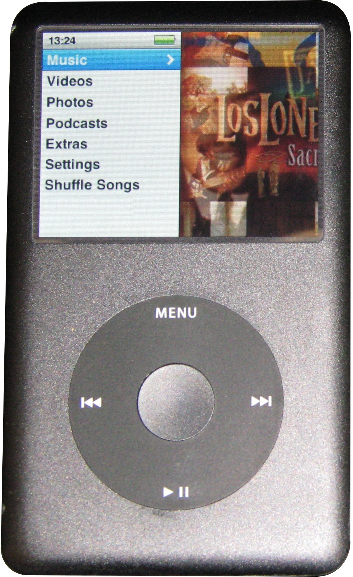 iPod classic 6th Generation in black.